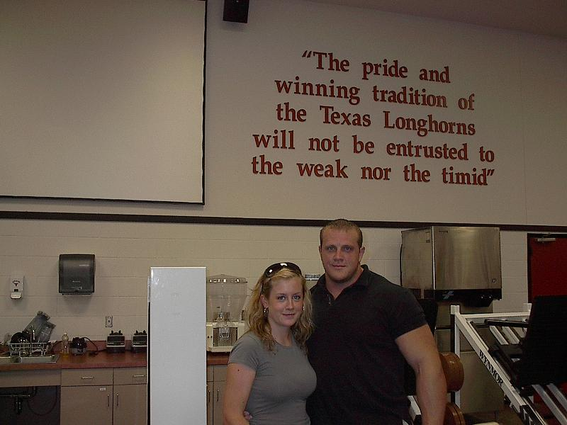 Travis Ortmayer